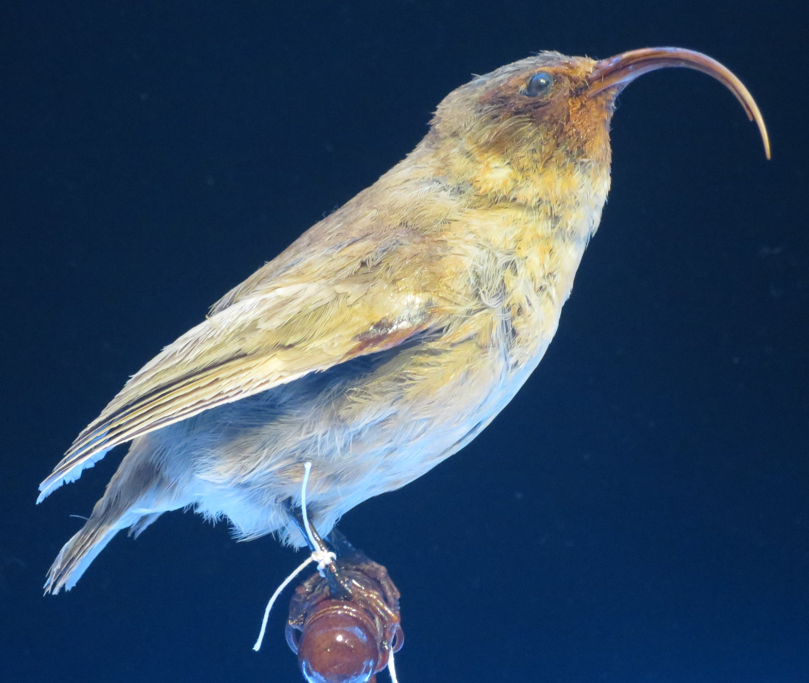 Hemignathus obscurus (Gmel.), female, Bishop Museum, Honolulu